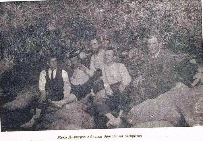 Jheko Dimitrov 02